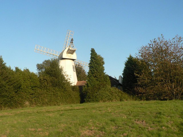 Photograph of windmill at Battle, Sussex